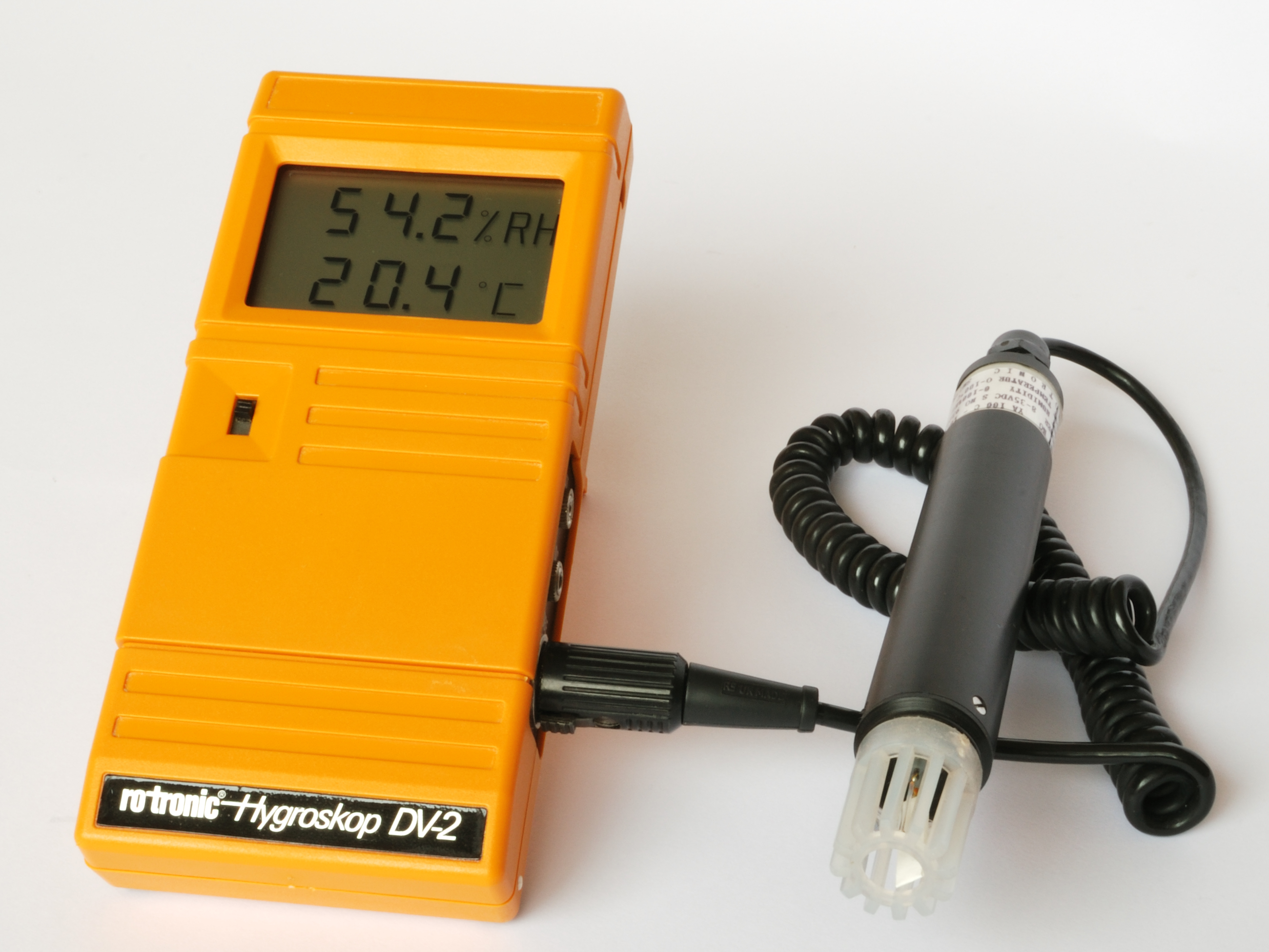 Hand held temperature and humidity meter (thermohygrometer), type rotronic DV-2. Humidity is measured by means of a capacitive sensor, the temperature by means of a silicon diode. Probe detail Hygrometer probe rotronic DV-2